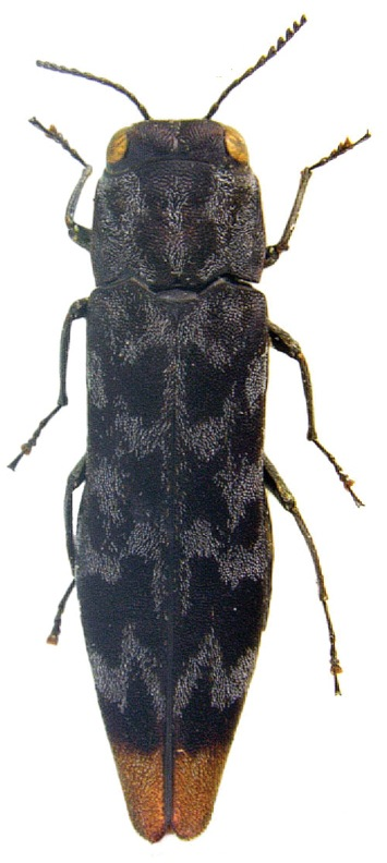 Agrilus auroapicalis Kurosawa, 1957.